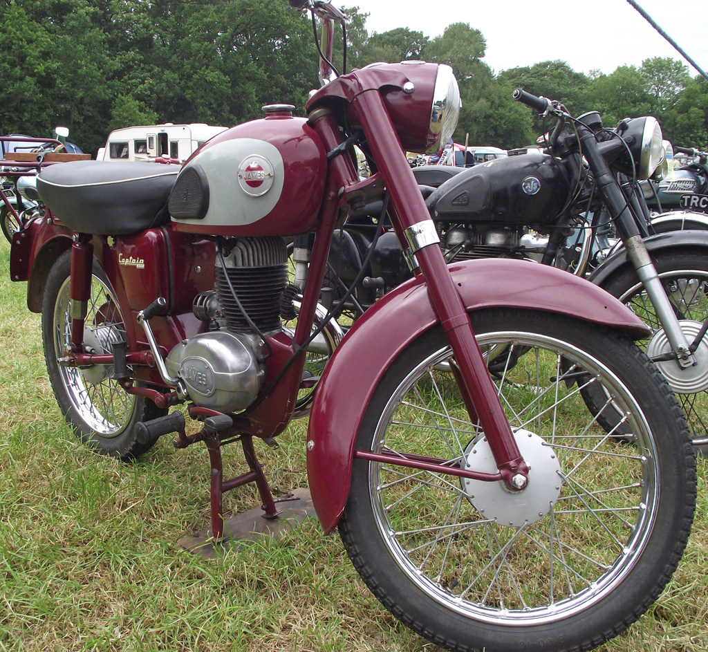 James Captain 200